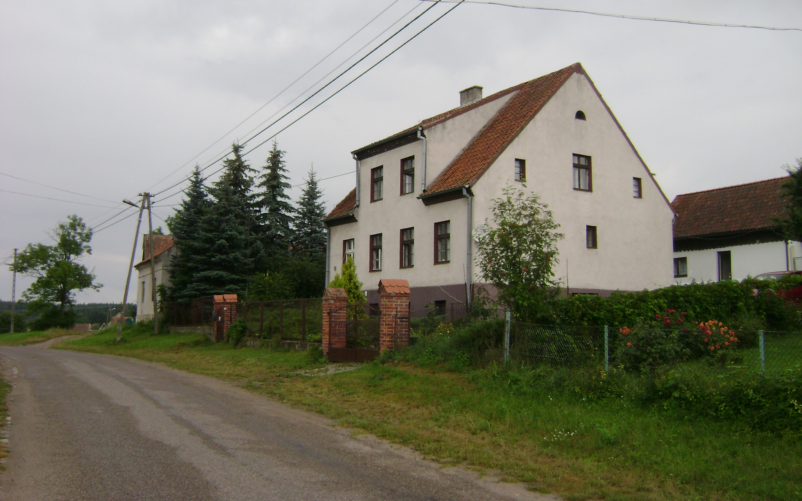 Burdąg